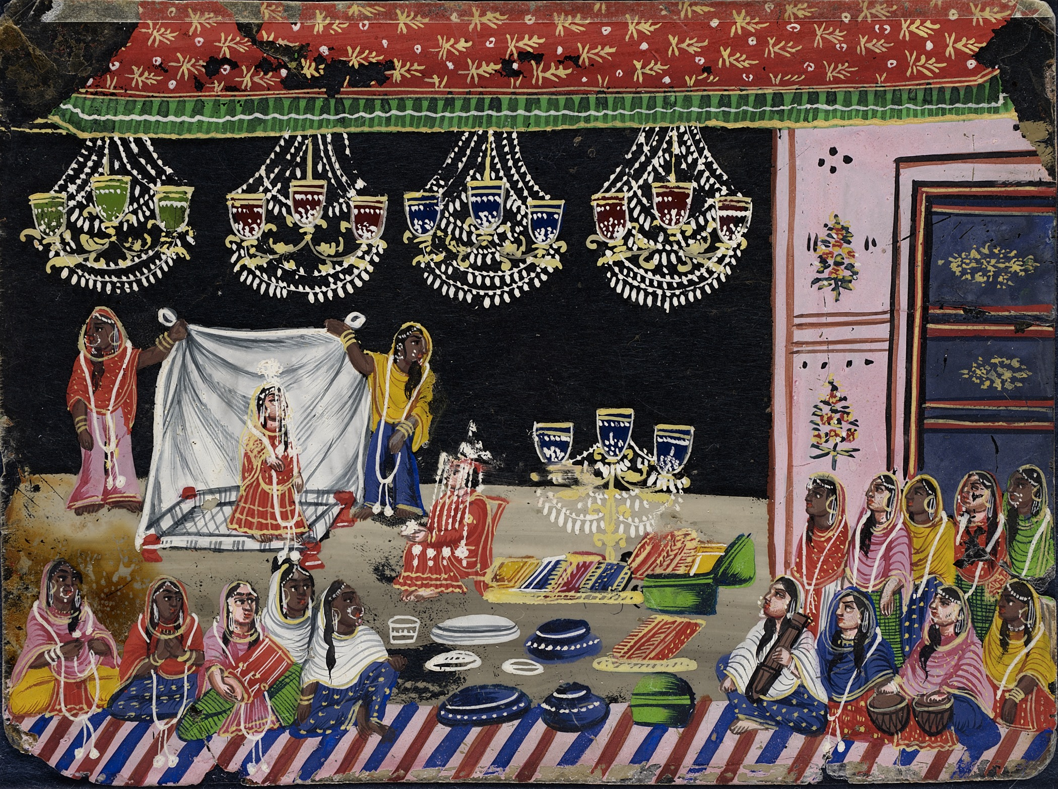 India, West Bengal, Murshidabad, circa 1800 Drawings; watercolors Opaque watercolor on mica Gift of Miss Gertrude McCheyne (37.28.9) South and Southeast Asian Art